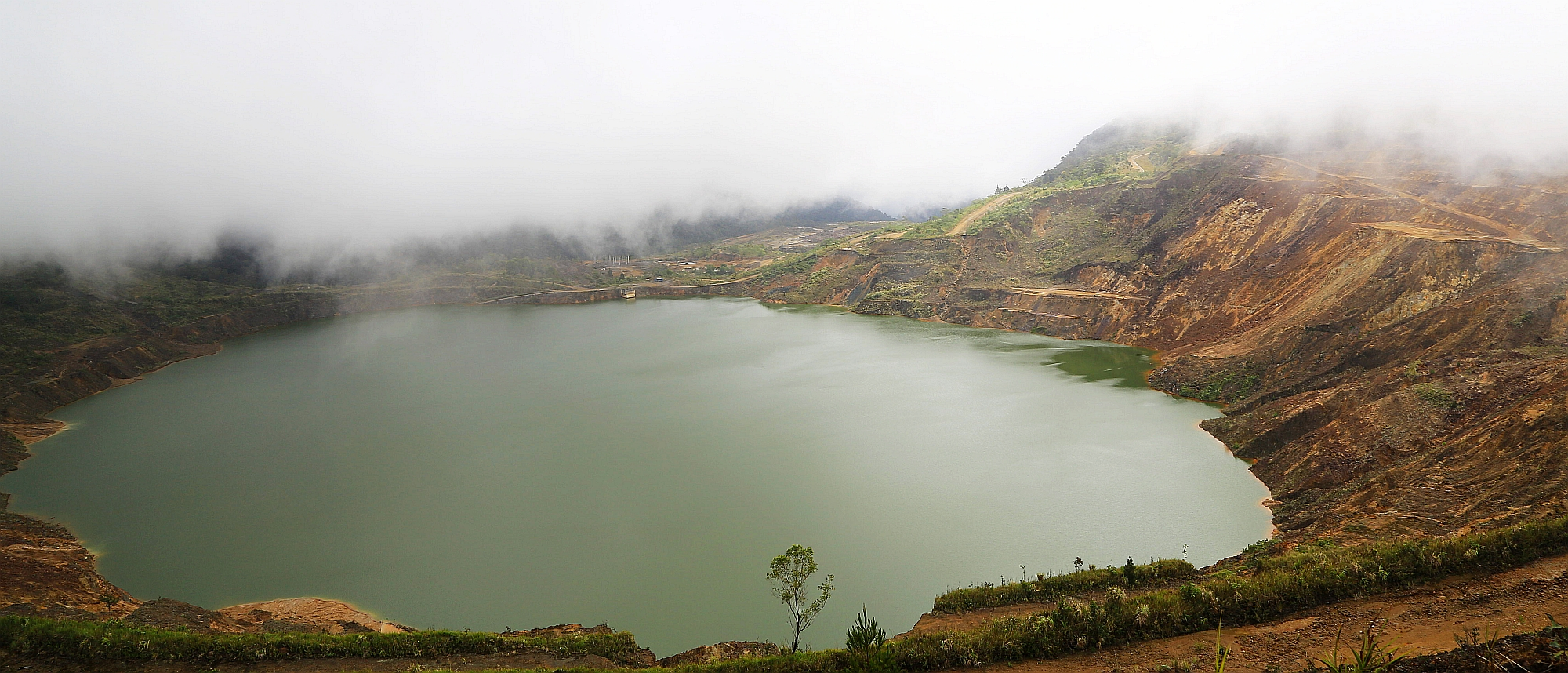 Ranau, Sabah: The Mamut Copper Mine